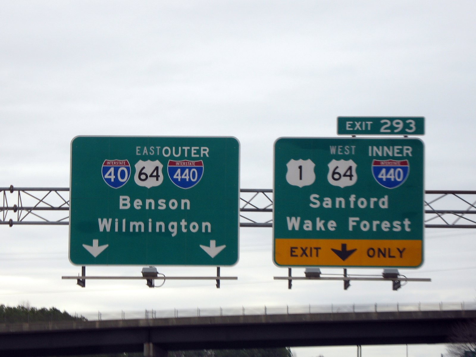 I took this picture on I-40 in Cary.